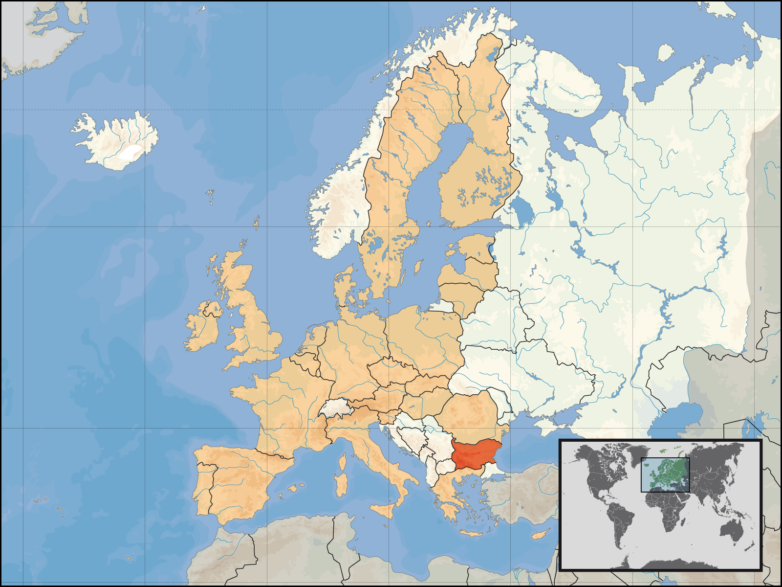 Location of Bulgaria within Europe and the European Union on the 1st of January 2007.